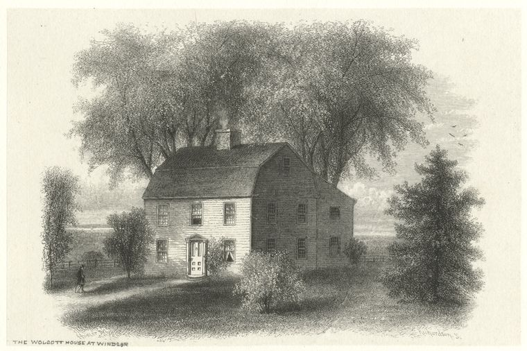 Drawing of the Wolcott House at Windsor, Connecticut. Courteasy of the New York Public Library Digital Collection.